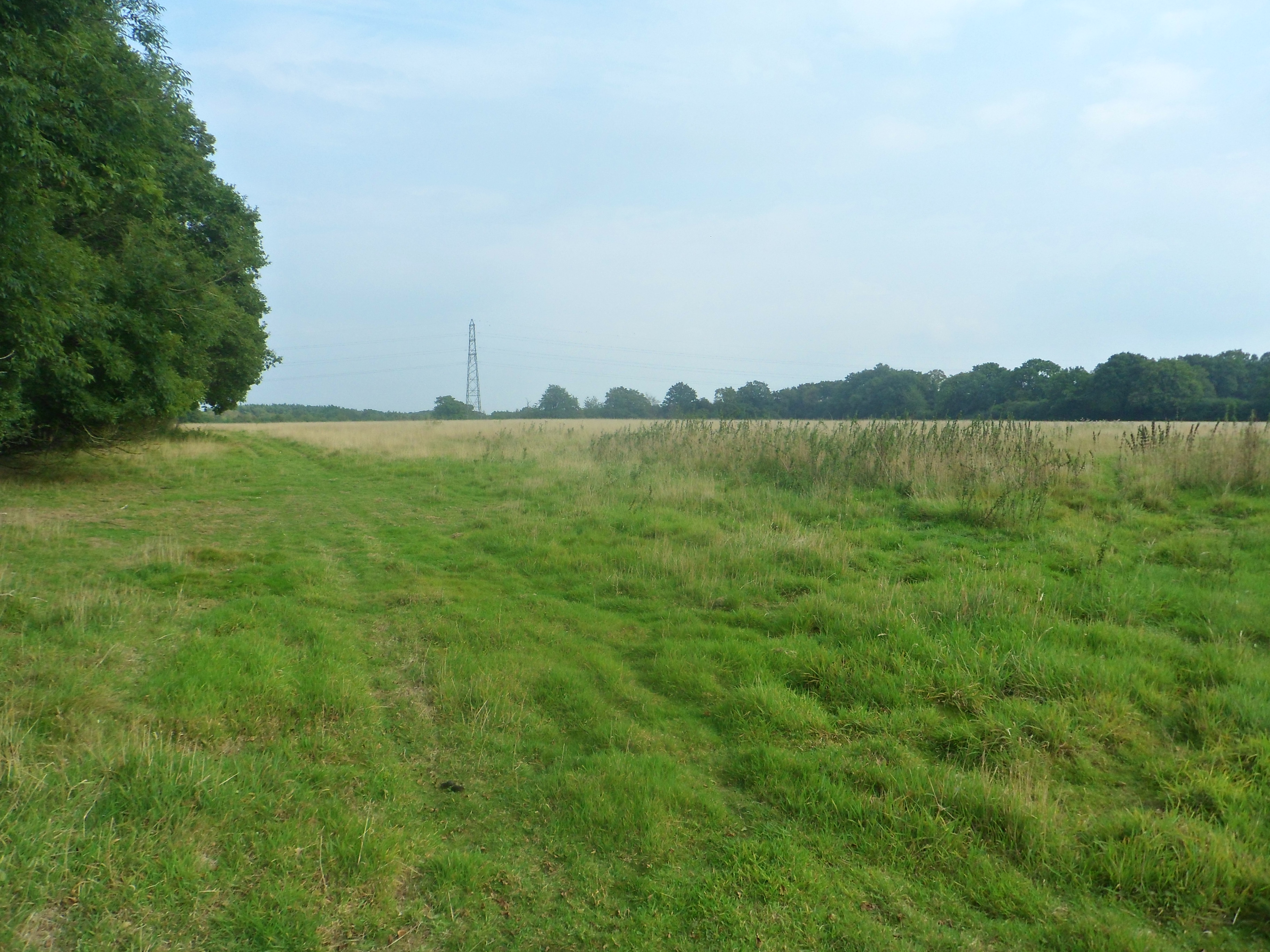 One of a series of photos chronicling the development of Crawley New Town's 14th residential neighbourhood, Forge Wood.This view shows a large field on the south side of the public footpath leading from Balcombe Road (opposite the Steers Lane junction) past Toovies Farm, across the M23 and eventually to Copthorne. This land will be developed with housing as part of Phase 2 of the Forge Wood neighbourhood.